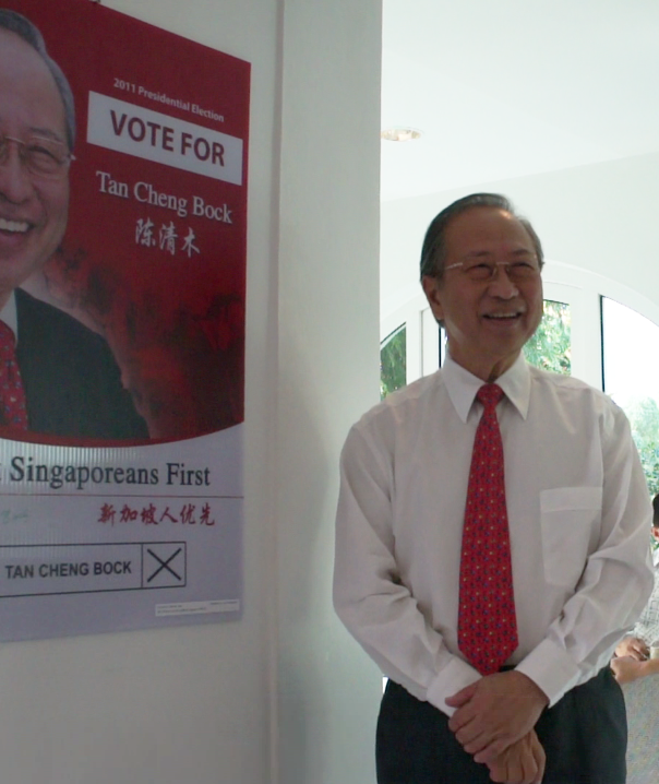 Dr. Tan Cheng Bock at home on Nomination Day, posing with his poster.